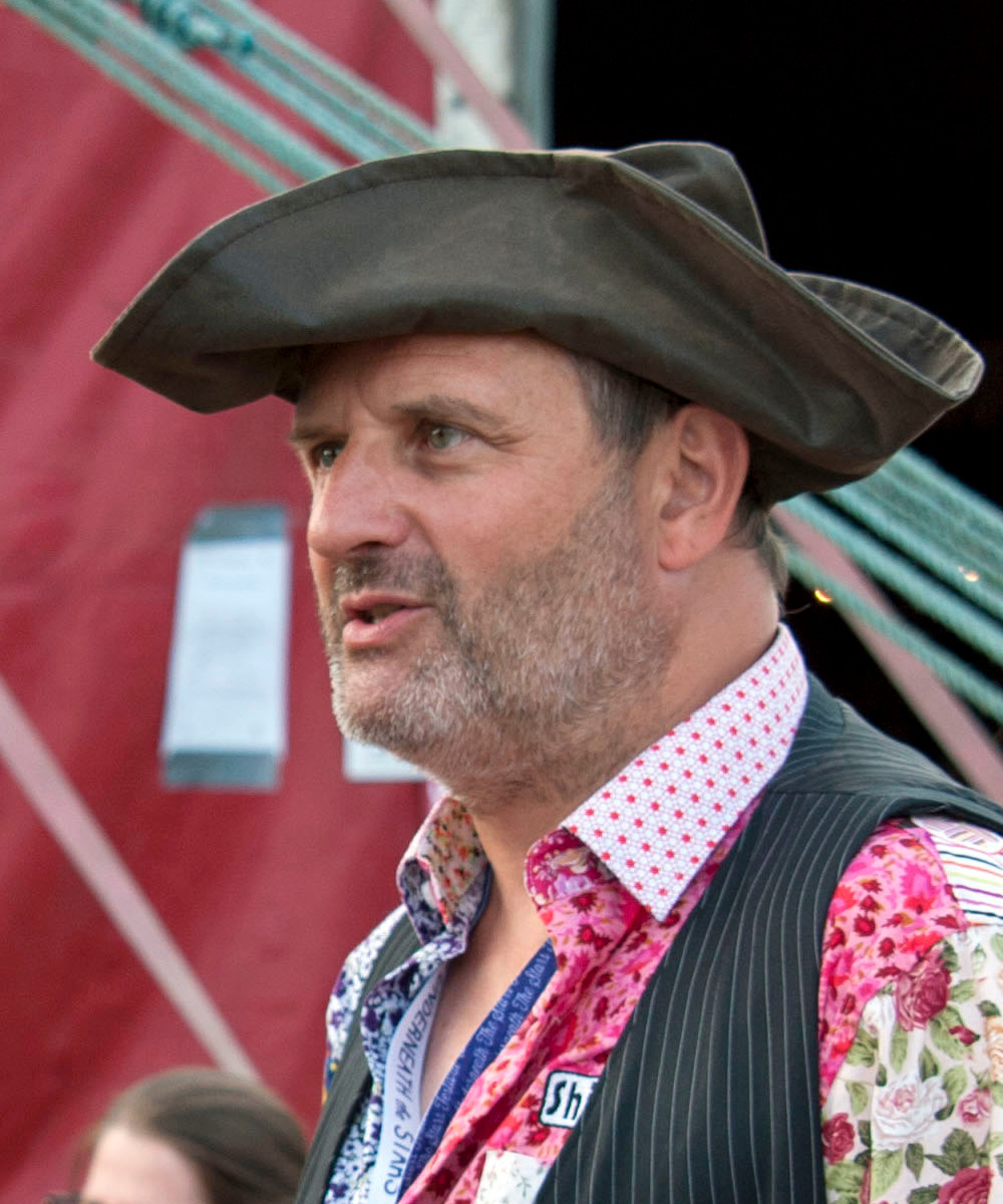 crop of Mark Radcliffe